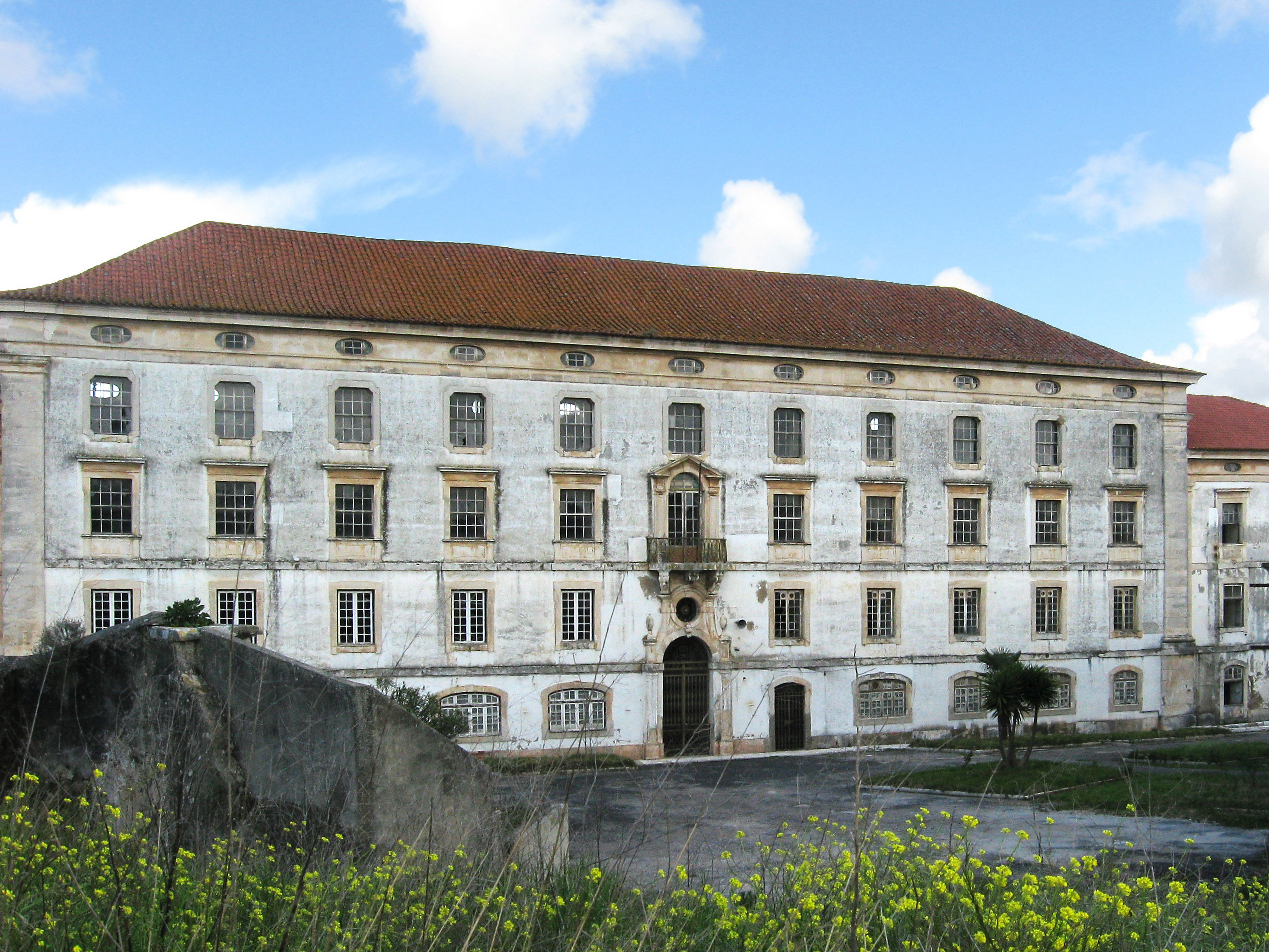 Mosteiro de Alcobaça, Library, south side, 1755